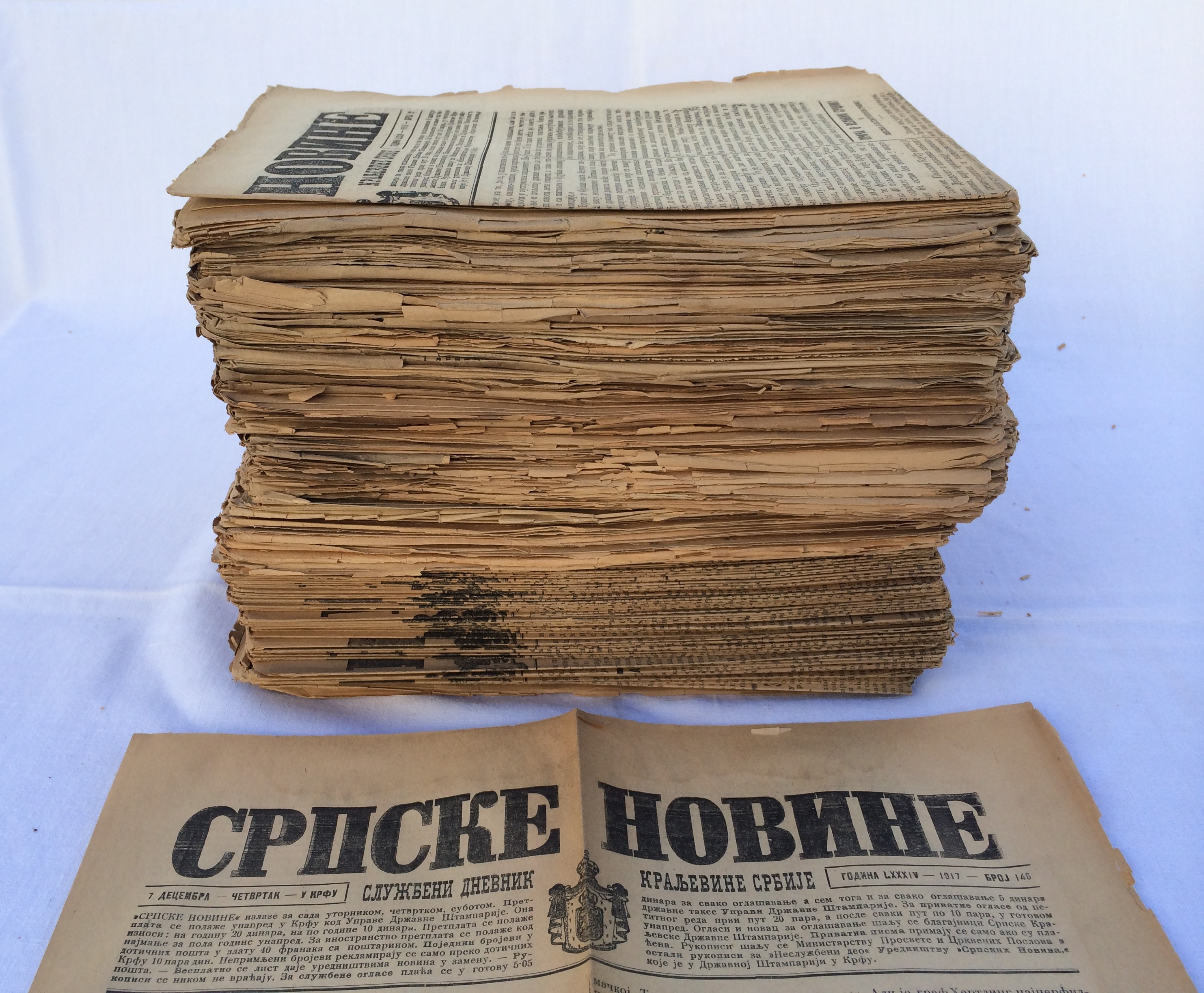 Serbian newspapers printed on Corfu, Greece, during World War I; Collected by Luka Lazić for the Lazić Library; They can be found in the Society for Culture, Art and International Cooperation Adligat in Belgrade, Serbia. Српски (ћирилица): Српске новине штампане на Крфу током Првог светског рата; Сакупио Лука Лазић за Библиотеку Лазић; Налазе се у Удружењу за културу, уметност и међународну сарадњу Адлигат у Београду.